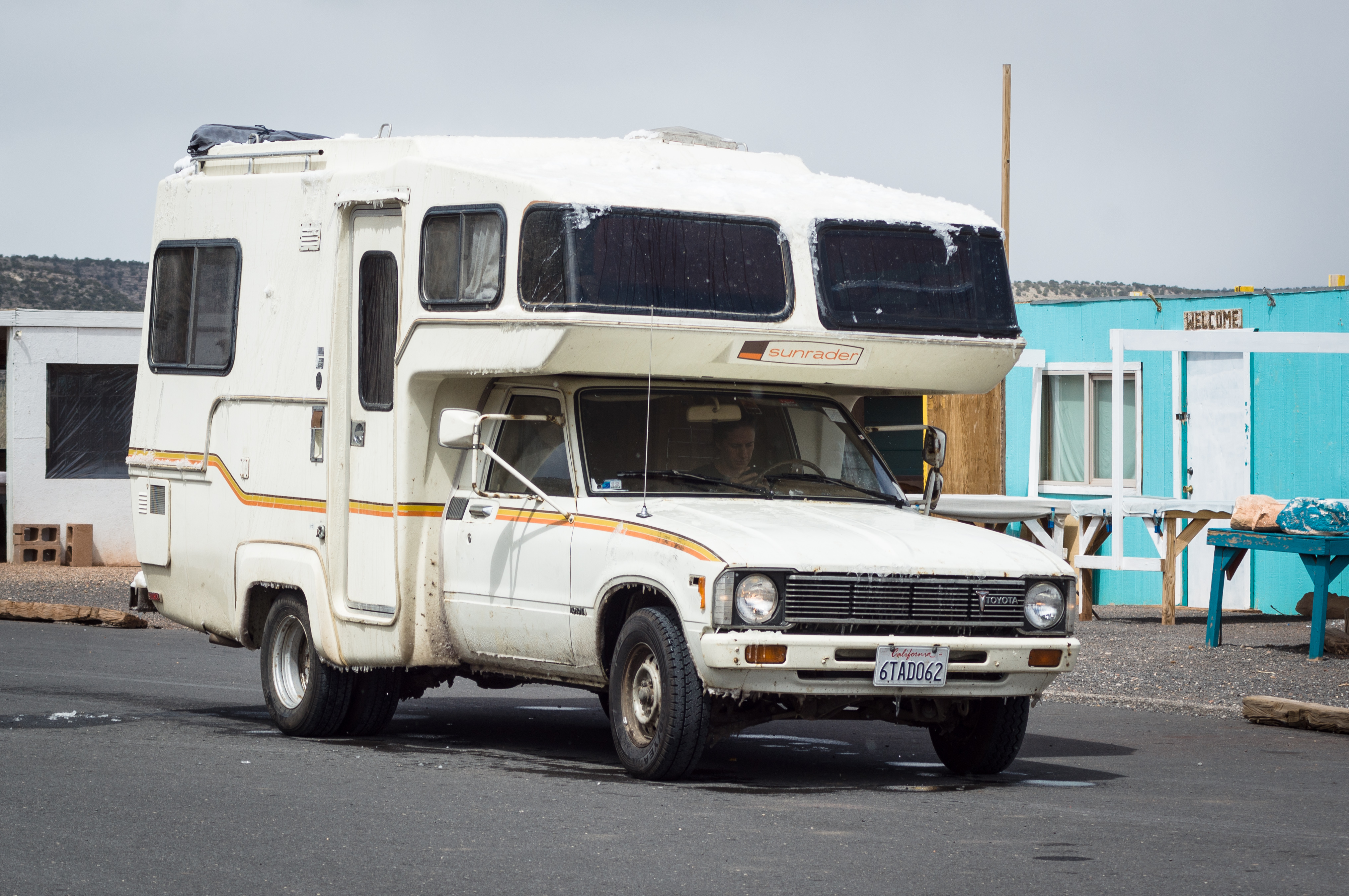 Sunrader mobile home, built on a third generation (1981) Toyota Hilux base, Arizona State Route 64, parking near Rd 6140, USA.